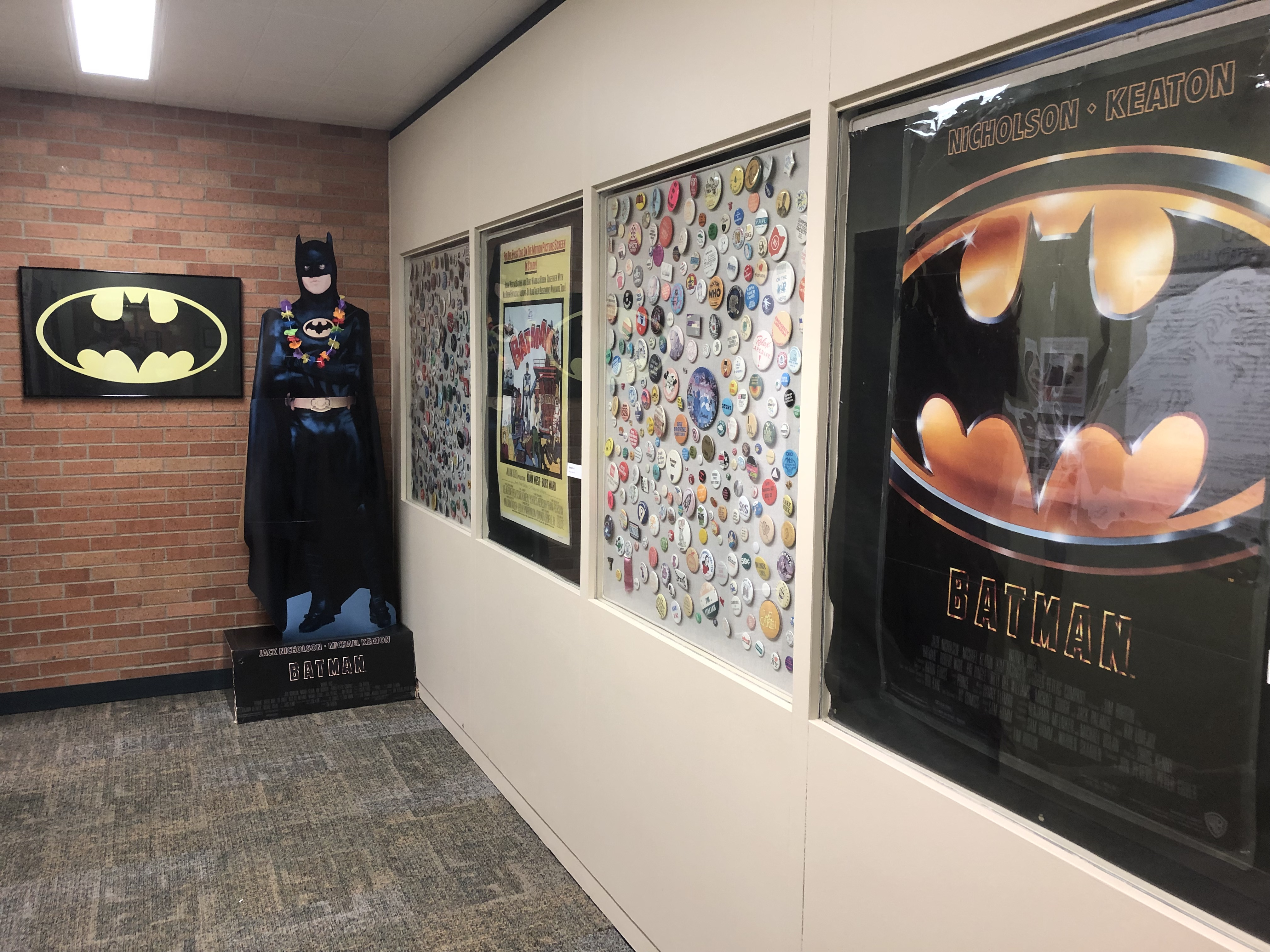 The lobby of the BGSU Pop Culture library on the 4th floor of Jerome Library after their 2019 Batman Conference.